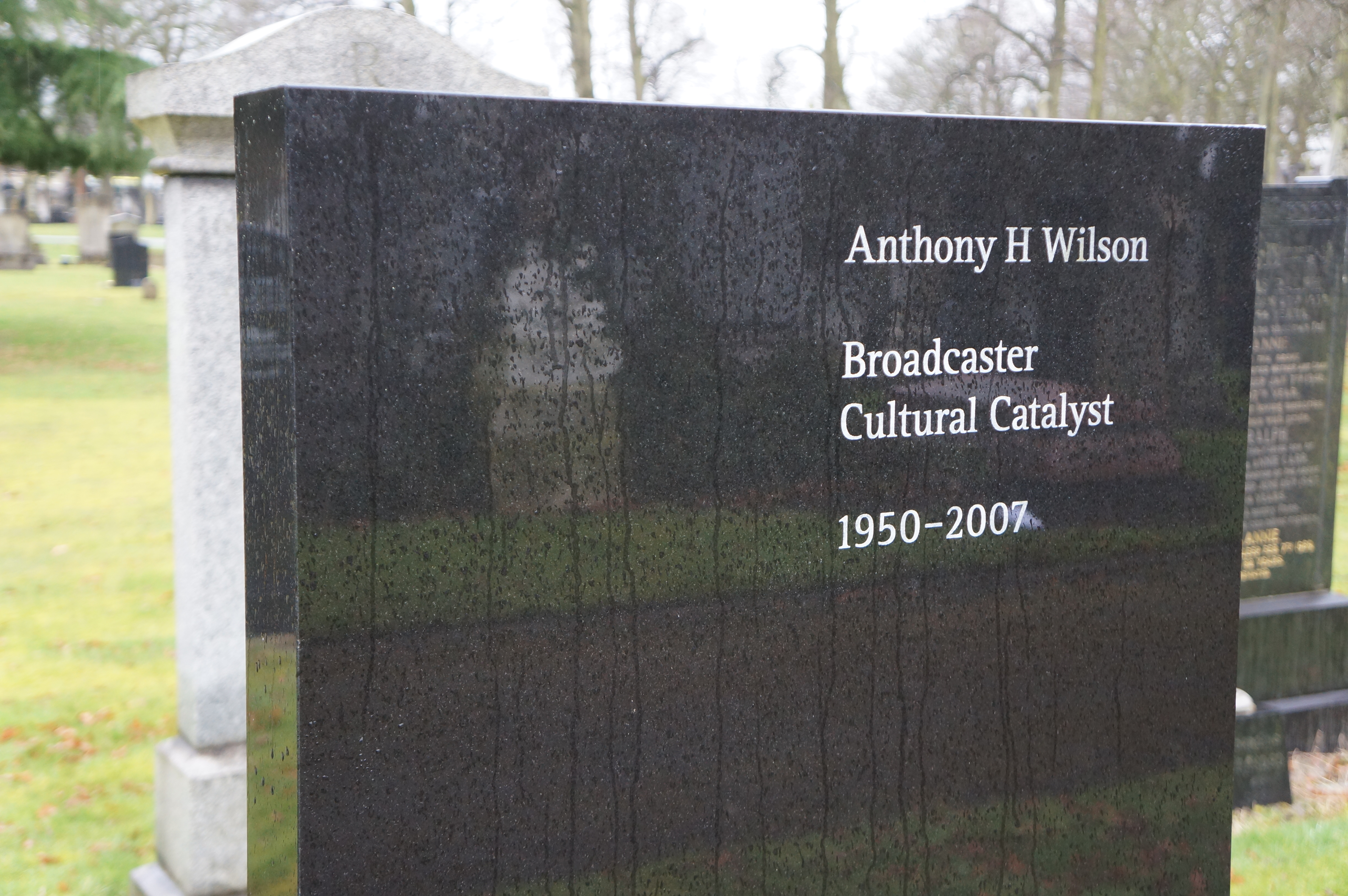 Southern Cemetery, Manchester